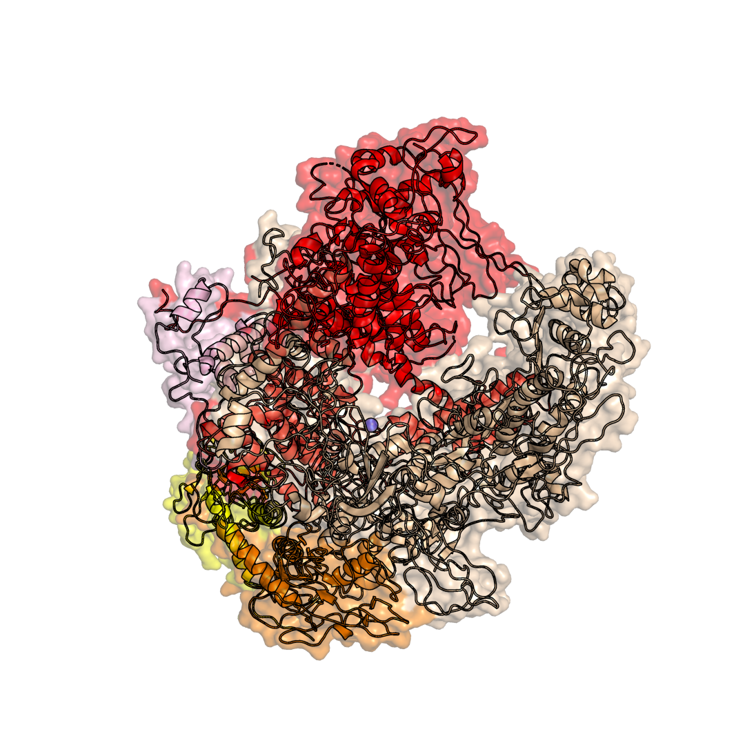 Bacterial RNA-polymerase structure from Thermus aquaticus, PDB ID 1HQM [1]. Subunits colored: α1 – orange, α2 – yellow, β – wheat , β' – red, ω – pink. Magnesium ion in active cleft is shown blue. Structure is shown as cartoon and surface. Rendered with free Pymol software. Colored subunits are homologous to ones from image "Eukaryotic RNA-polymerase II structure 1WCM".